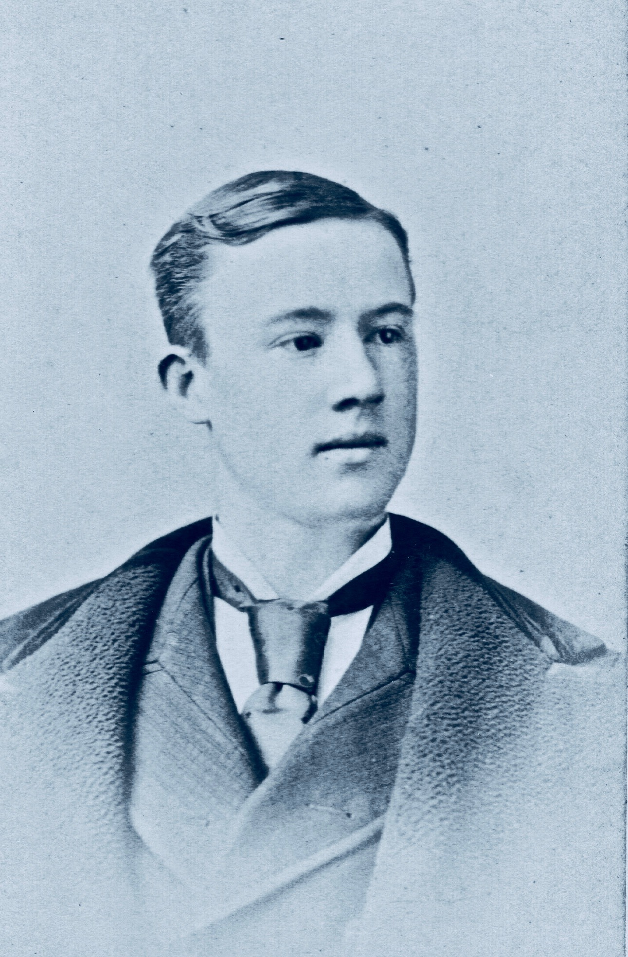 Henry Jagger Corbett (1857 - 1895) photo April 1876 (aged 18.) Henry W. Corbett's eldest son who predeceased him aged 37 Head and shoulders photo by Napoleon Sarony, 680 Broadway, New York. Photographed April 1876. Wikilink Henry W. Corbett.